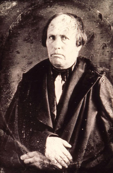 Padre Martínez, the only known picture of him.